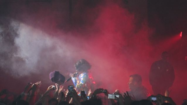 M.I.A. performing on tour in support of third album /\/\ /\ Y /\ , 2010 at 02 Brixton Academy